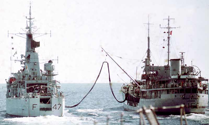 RAS (Replenishment at Sea) HMS Danae (F47) & RFA Brown Ranger (A169). Taken from HMS Argonaut acting as safety ship.